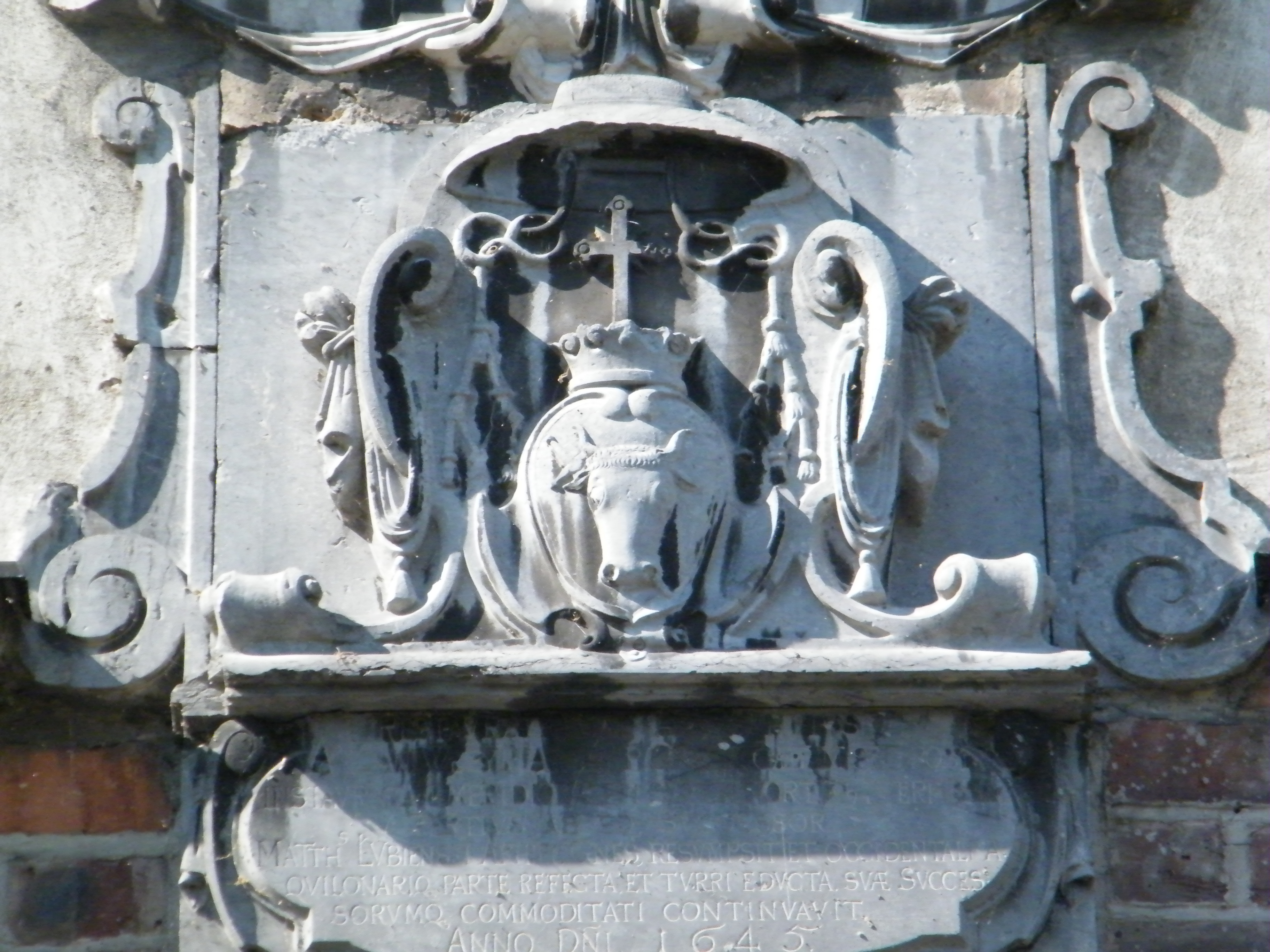 Coat of arms Pomian of Matthias Łubieński displayed on Uniejów Castle